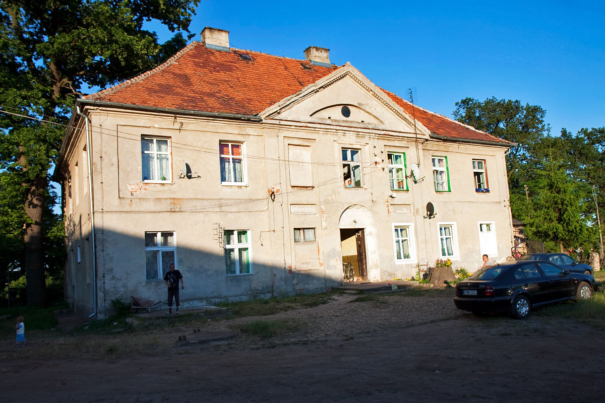 Manor House in Ksiaz Slaski